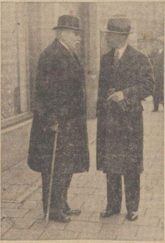 Dutch Minister of Home Affairs Jacob Adriaan de Wilde and mayor of Heerlen Marcel van Grunsven in 1935.